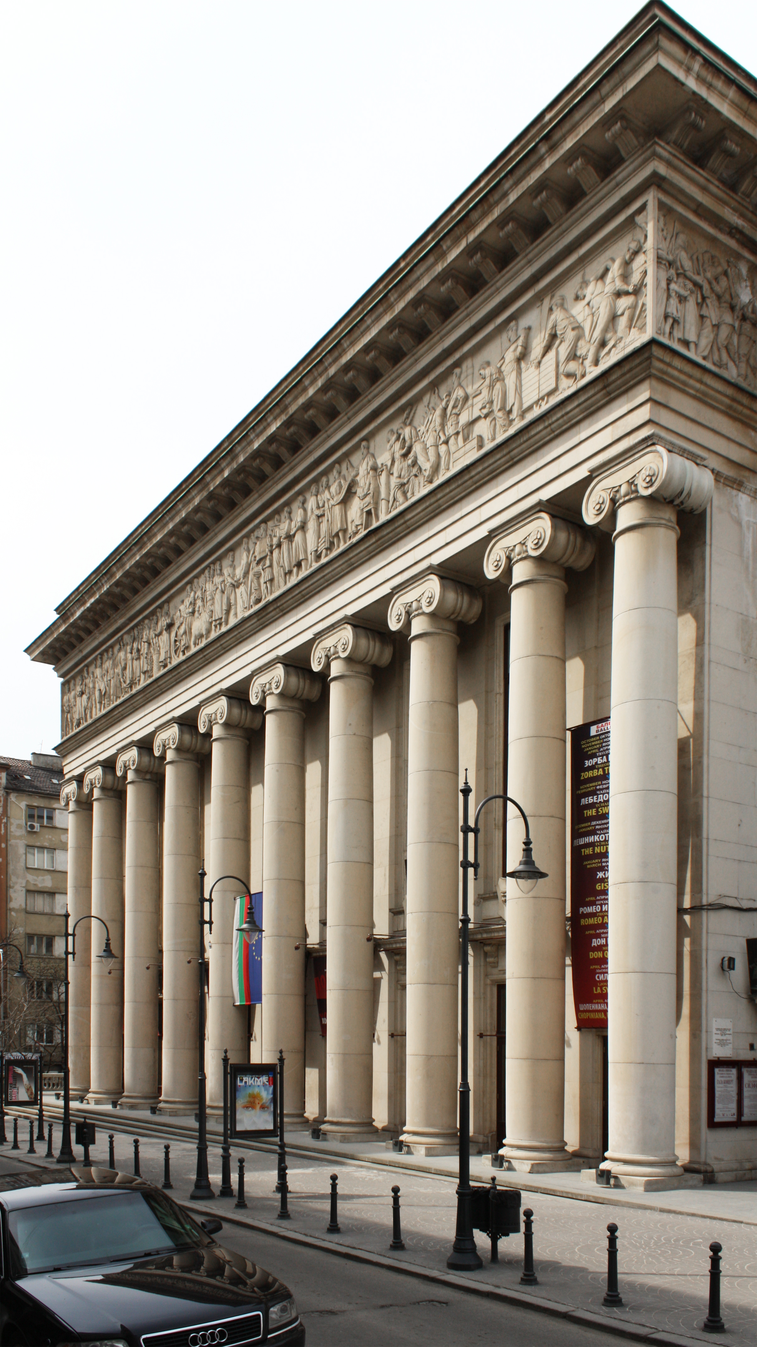 National Opera and Ballet, Sofia, Bulgarien